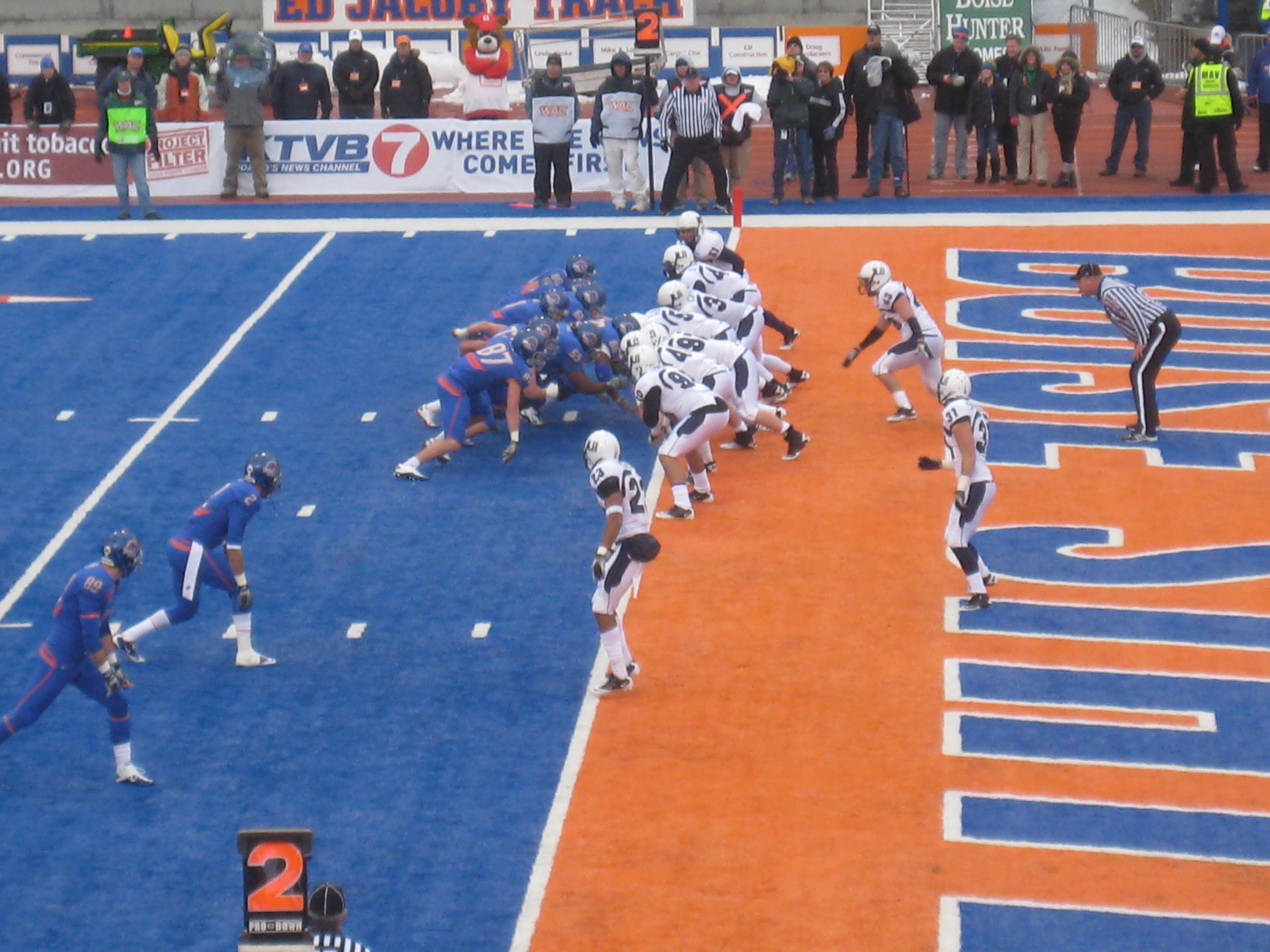 Boise State quarterback Kellen Moore scoring a 1 yard TD during their game vs Utah State on December 4, 2010 at Bronco Stadium in Boise, Idaho.